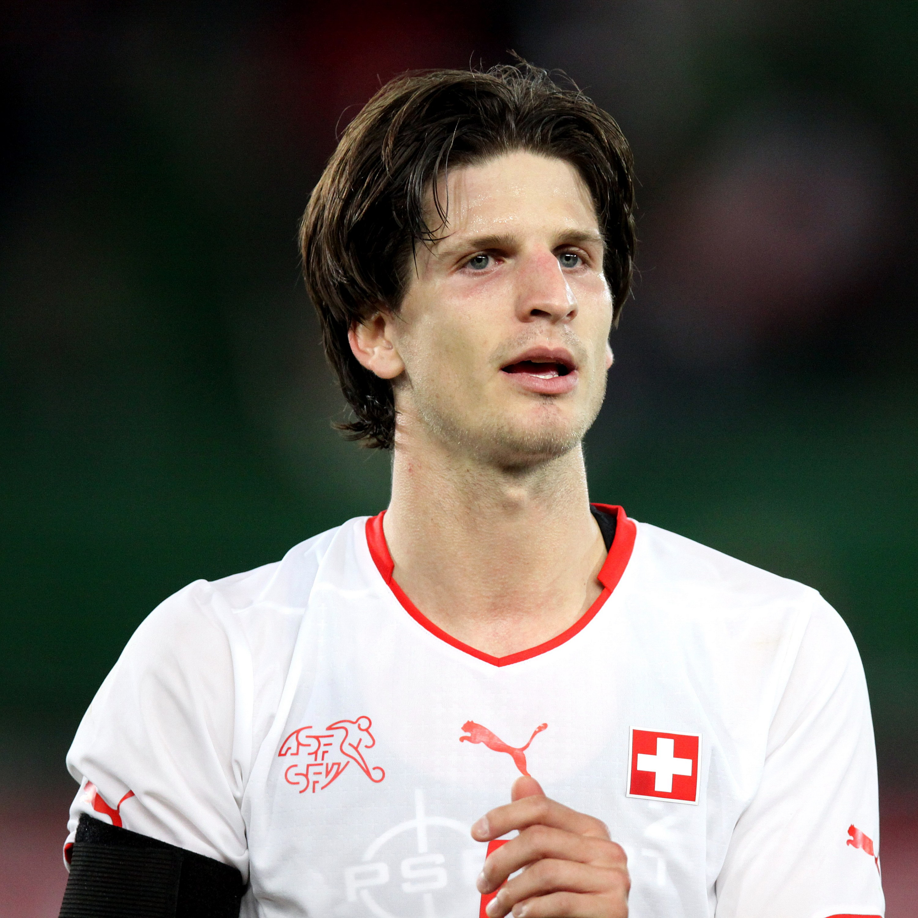 Friendly match – Austria (red shirts) vs. Switzerland (white shirts) 1-2 (1-2) – 2015-11-17 in Vienna, Ernst-Happel-Stadion – The photo shows Timm Klose.